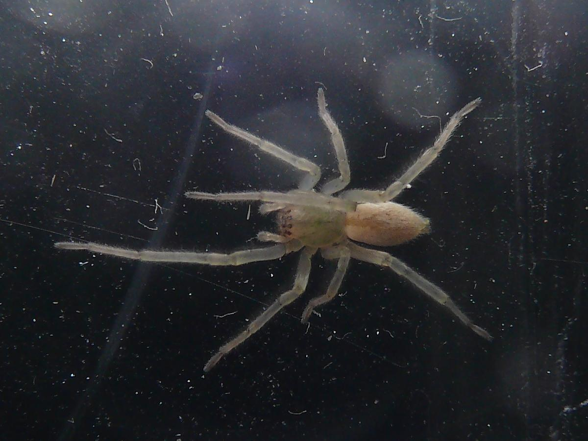 spider, see cat, found at 4:00 CEST at night in the corridor, middle-south germany. supposed to be: Cheiracanthium mildei